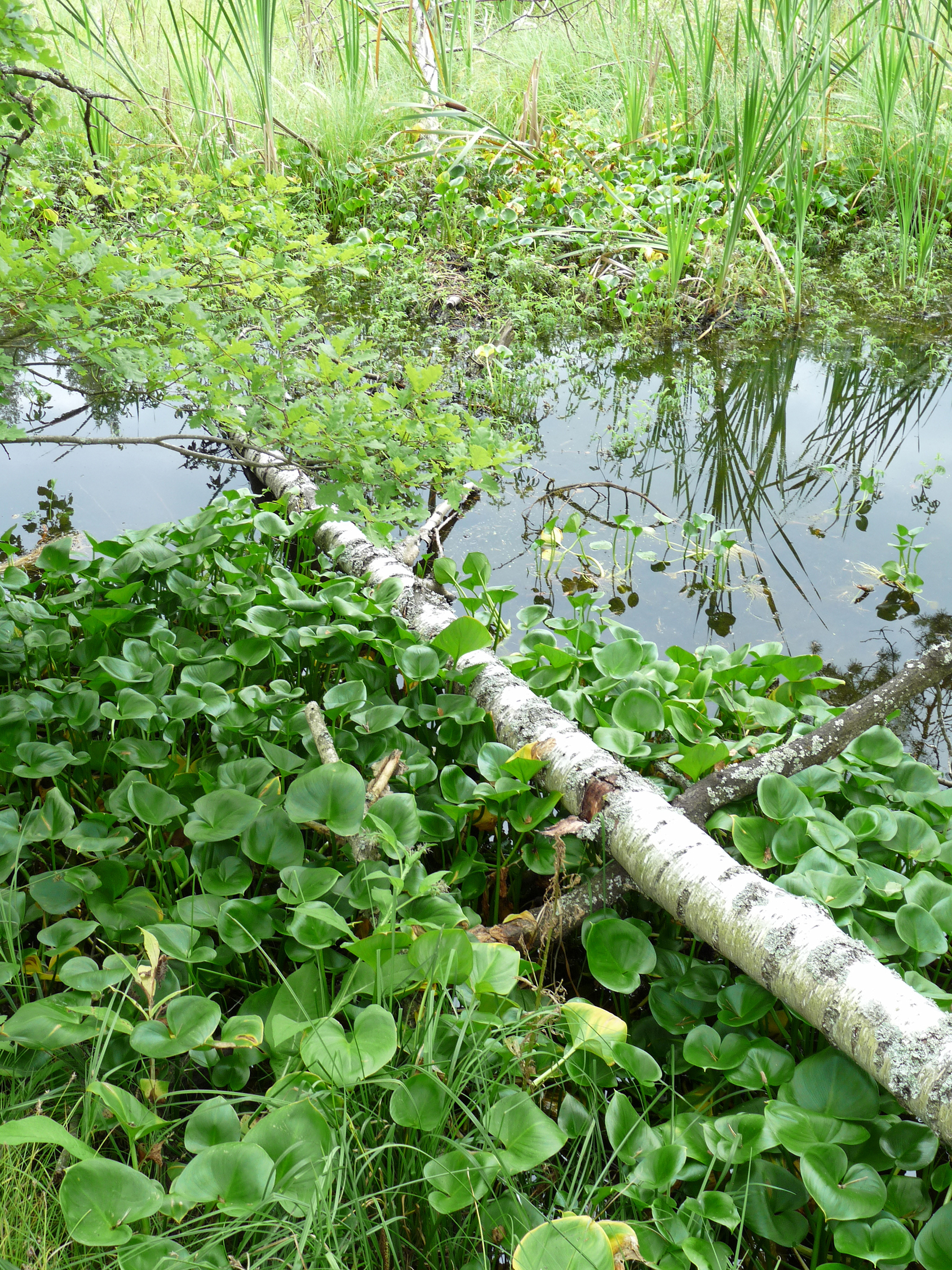 Calla in the pond of the natural monument Ďáblík, České Budějovice District, Czech Republic. Česky: Ďáblík bahenní v rybníku přírodní památky Ďáblík v okrese České Budějovice.